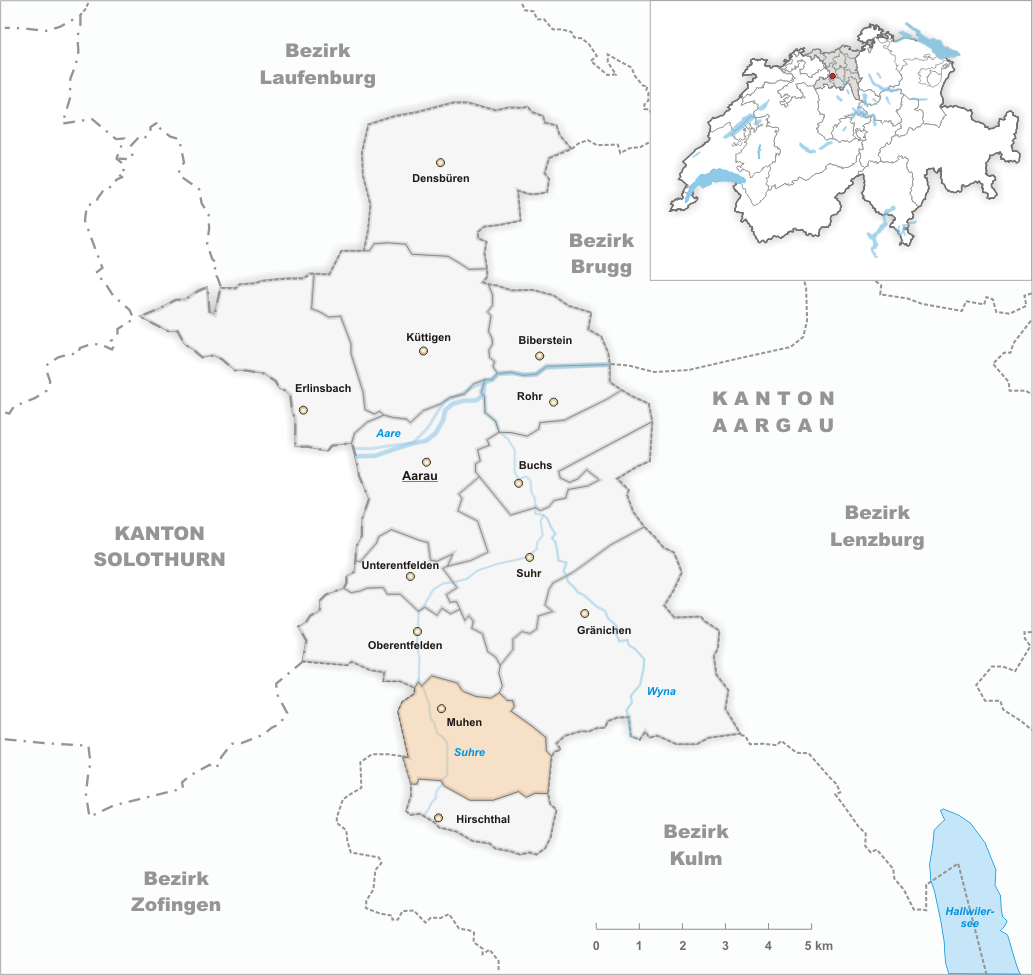 Municipality Muhen